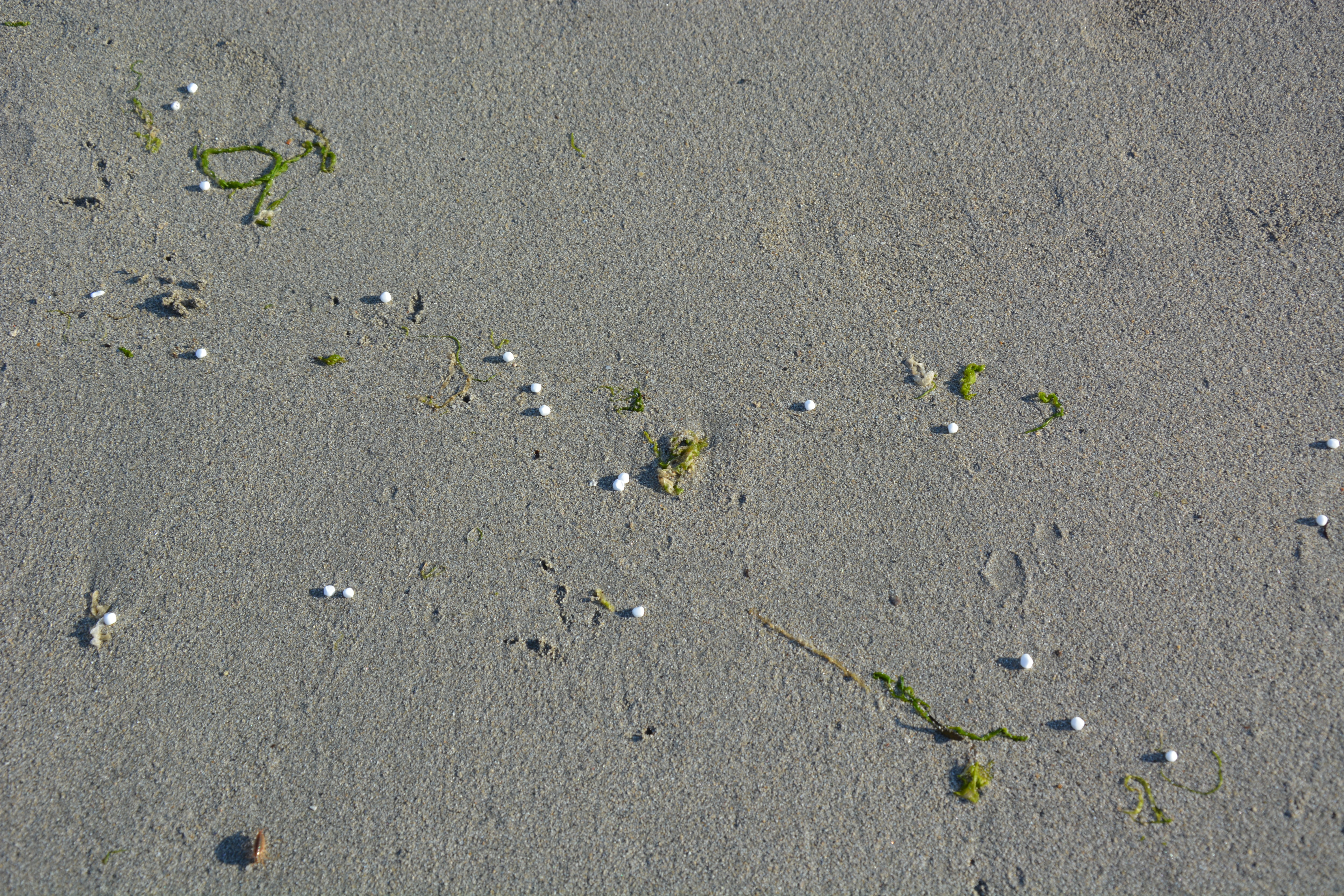 Polystyrene foam debris pollution on the beach (Galway, Ireland)